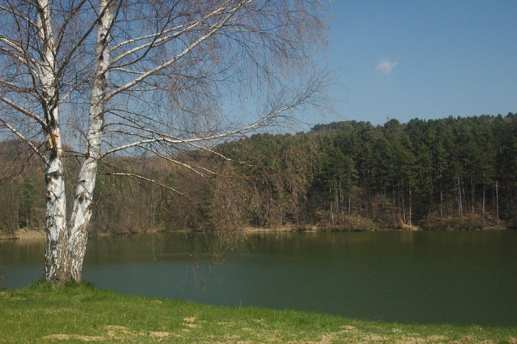 Stará Turá, Dubník reservoir